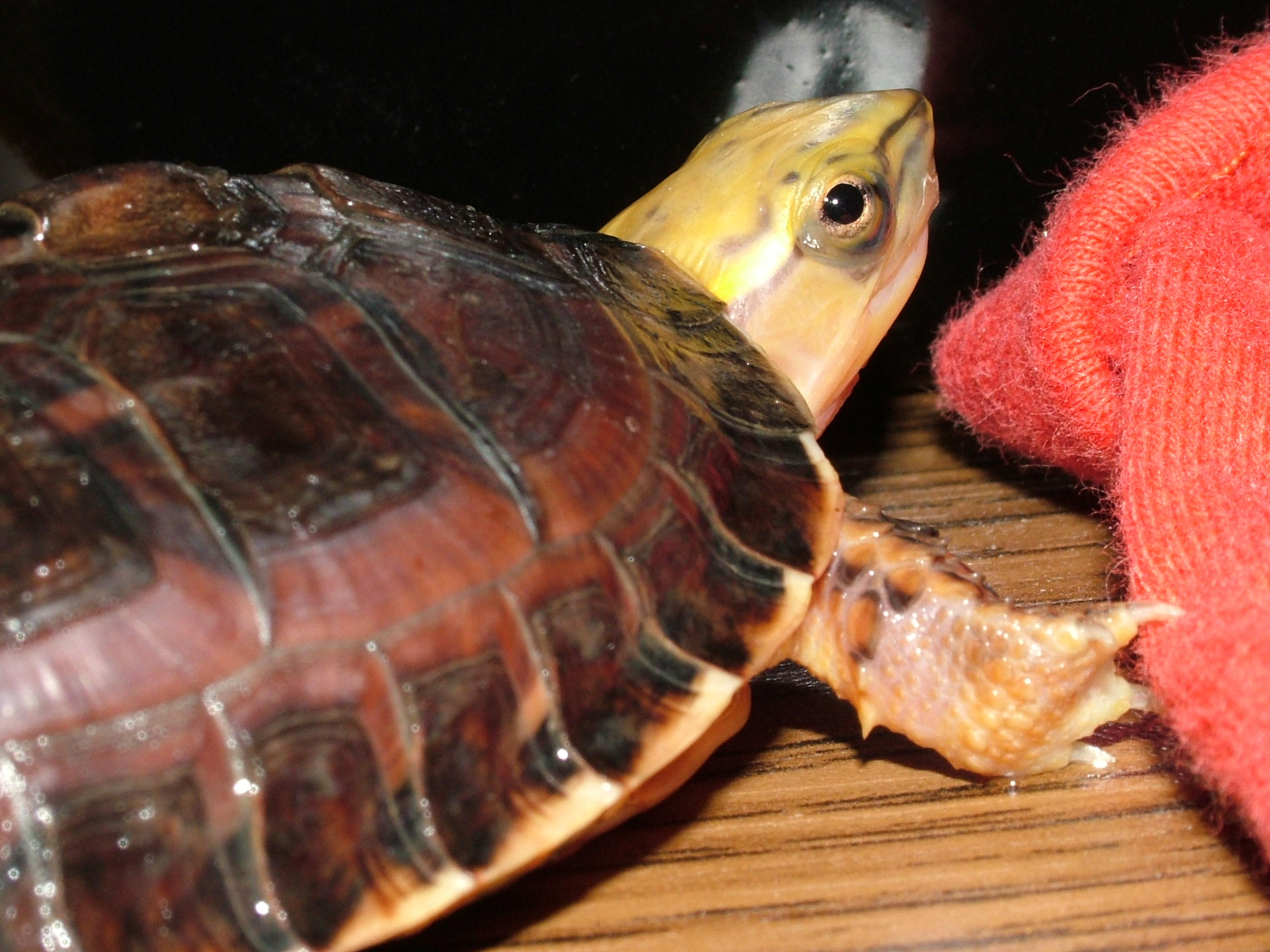 Close look of a juvenile Cuora mccordi